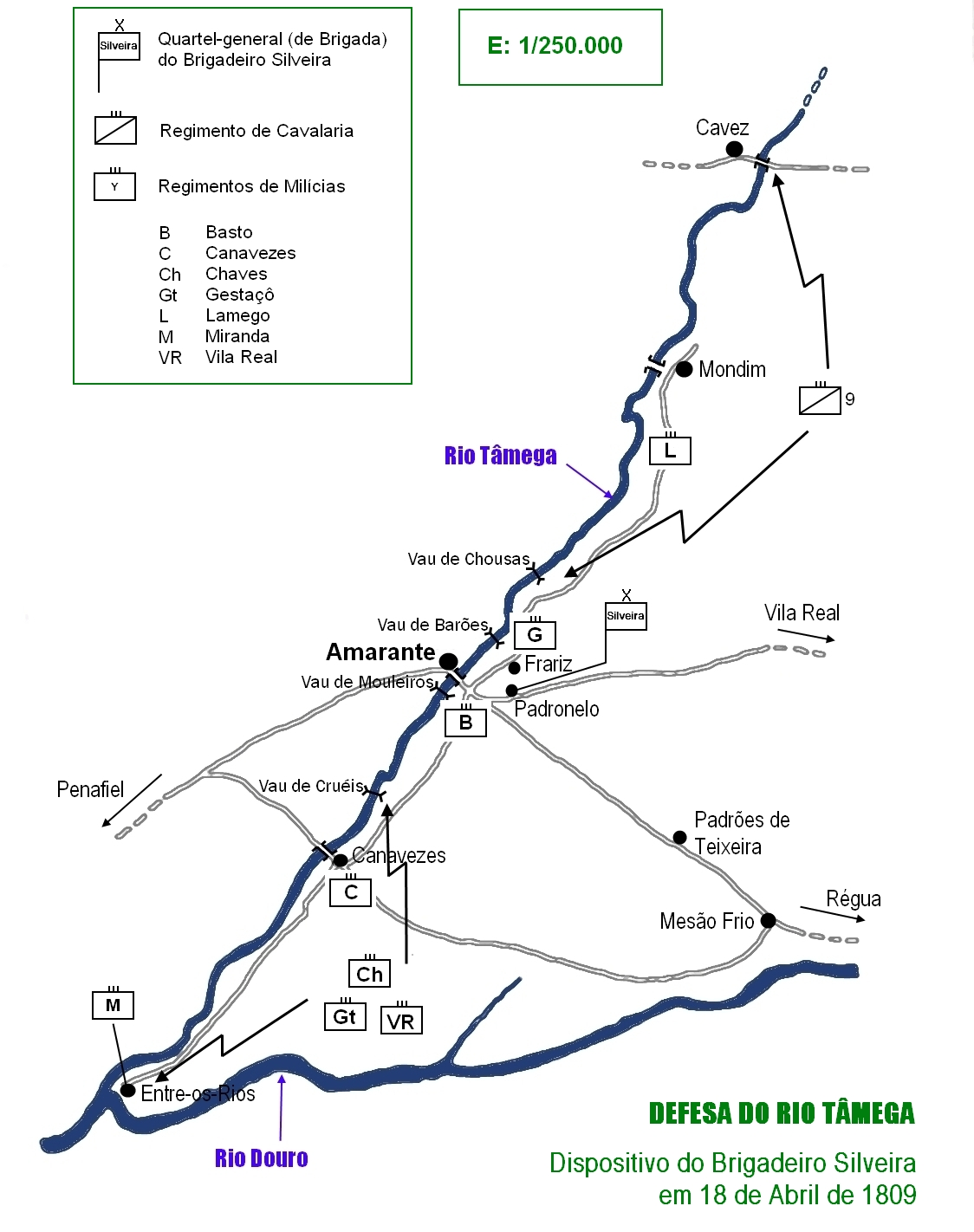 Scheme of the defense line of the river Tâmega on April 18, 1809.